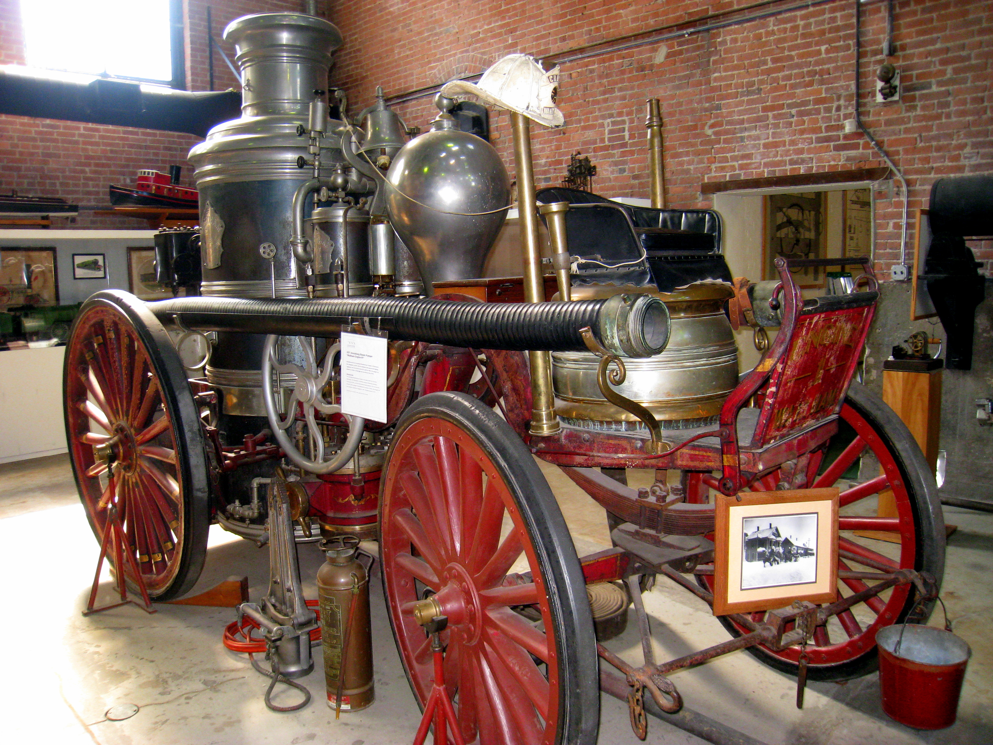 Amoskeag Manufacturing Company, Manchester, New Hampshire, USA - Fire engine, 1871, for Waltham, Massachusetts, USA. This steam engine was used from 1871 until the 1930s.